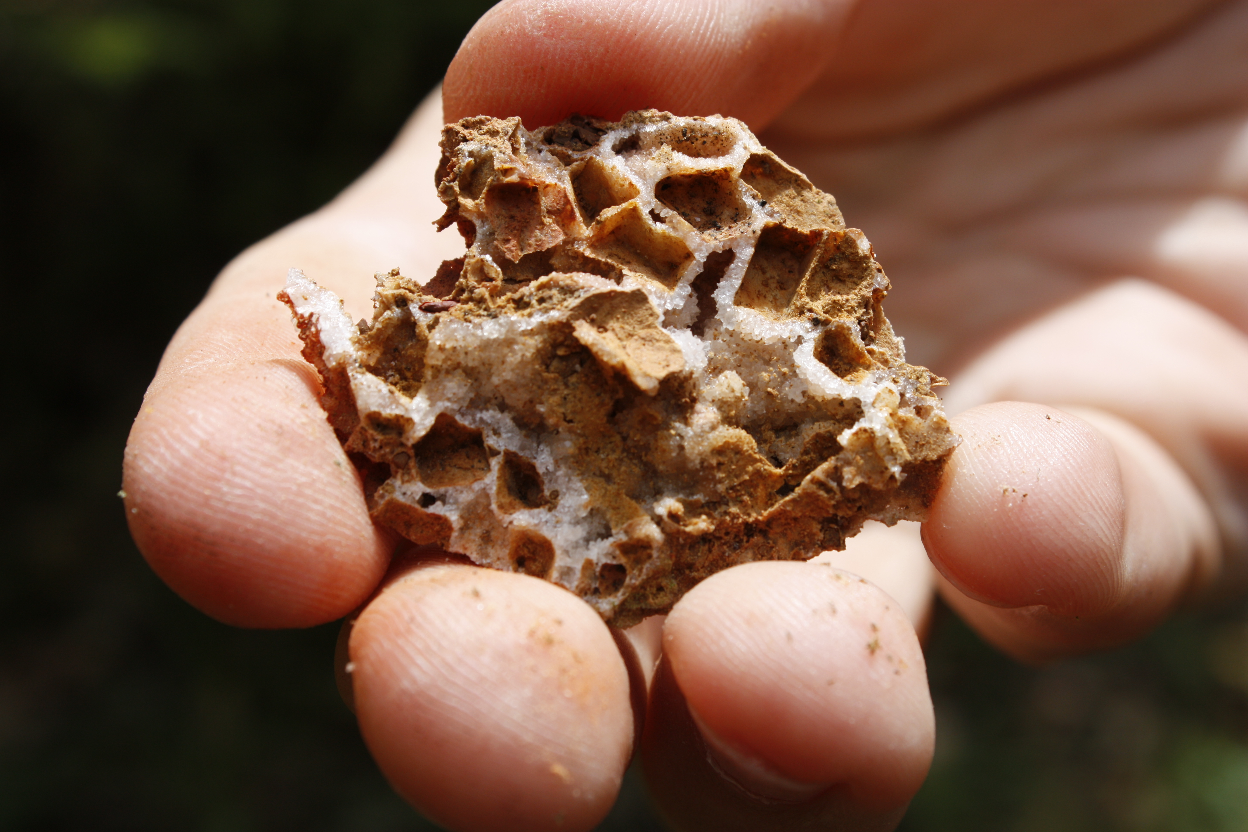 Red Stone in Riedöschingen, Germany. Detail view.